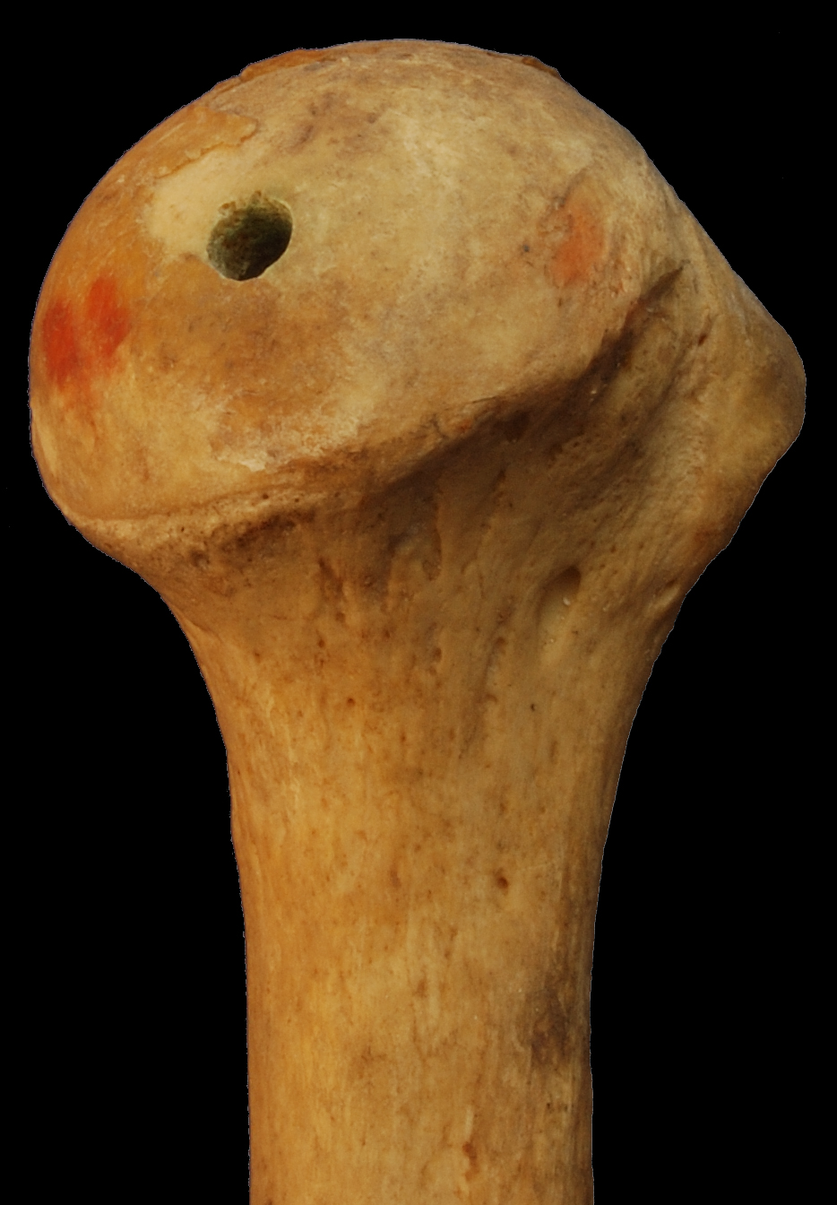 Photograph of medial aspect of left human humerus. Note that the hole in medial aspect of the head of the humerus (on the left in the image) is artificial (used for articulating the skeleton). Taken with Nikon D50 digital camera. Keywords: Human bones, bone, humerus.